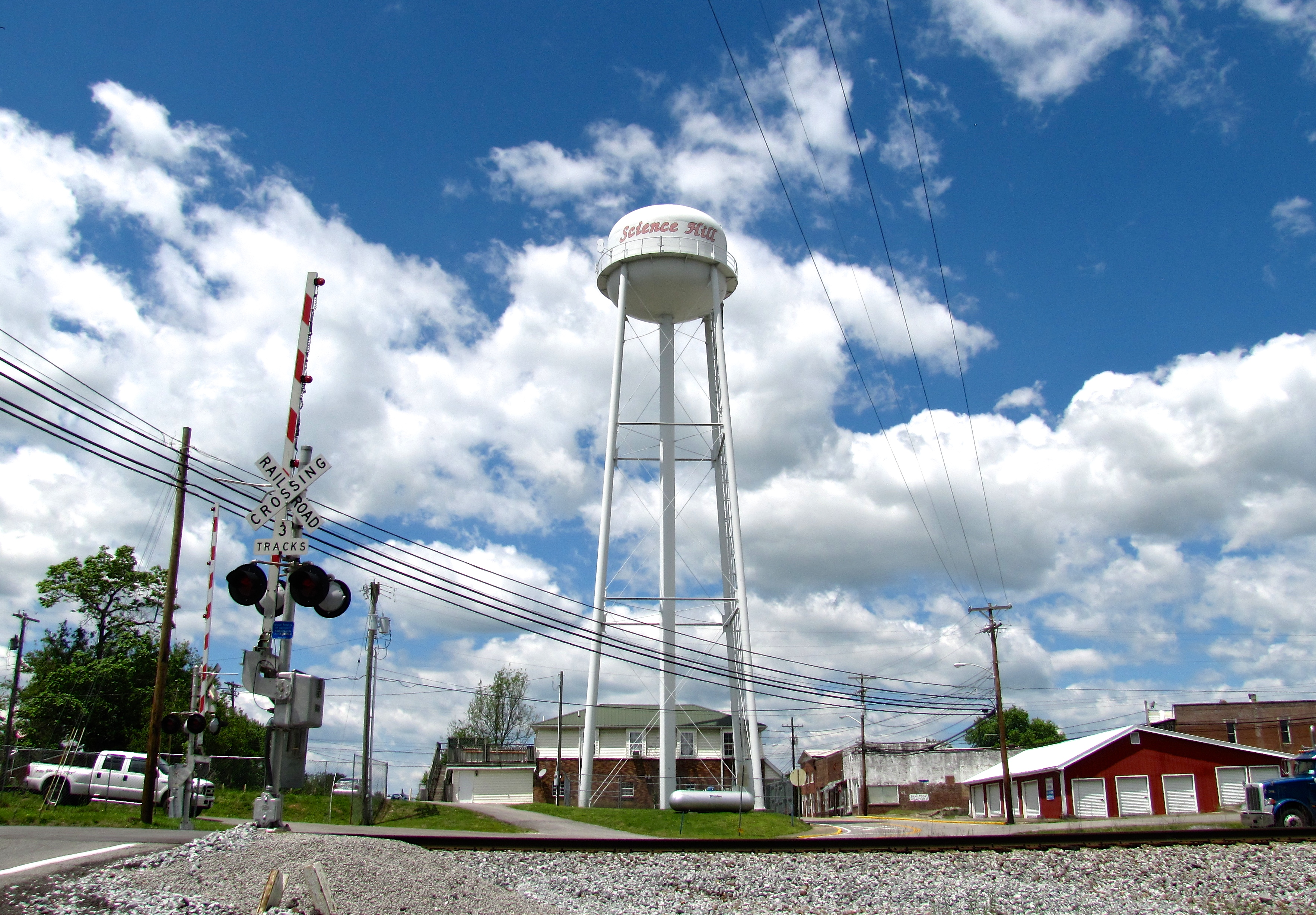 Water tower in Science Hill, Kentucky, United States.